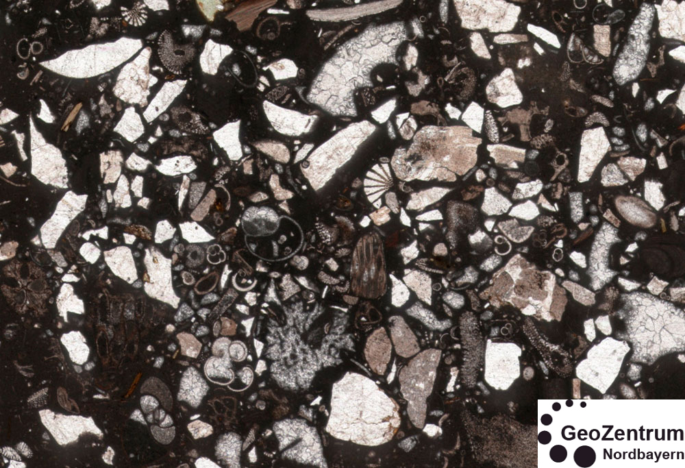 Packstone (Dunham-classification). Width of Picture is 7mm. Picture by courtesy of Axel Munnecke, Geozentrum Nordbayern